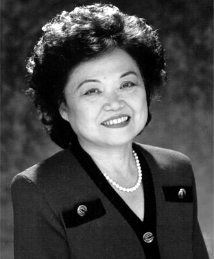 Congressional photograph of late Congresswoman Patsy Takemoto Mink